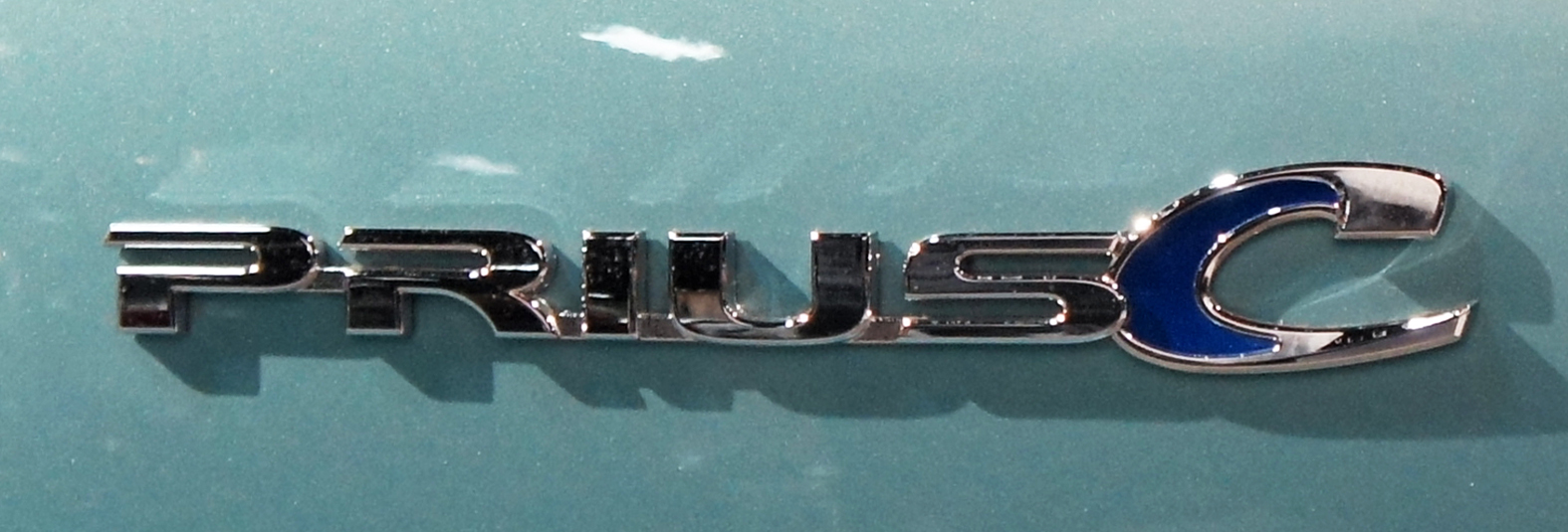 Toyota Prius c badge